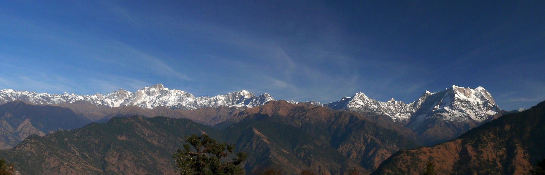 Panaromc view of Himalayan peaks Kedarnath ,Chaukhamaba and others from Deoria Tal